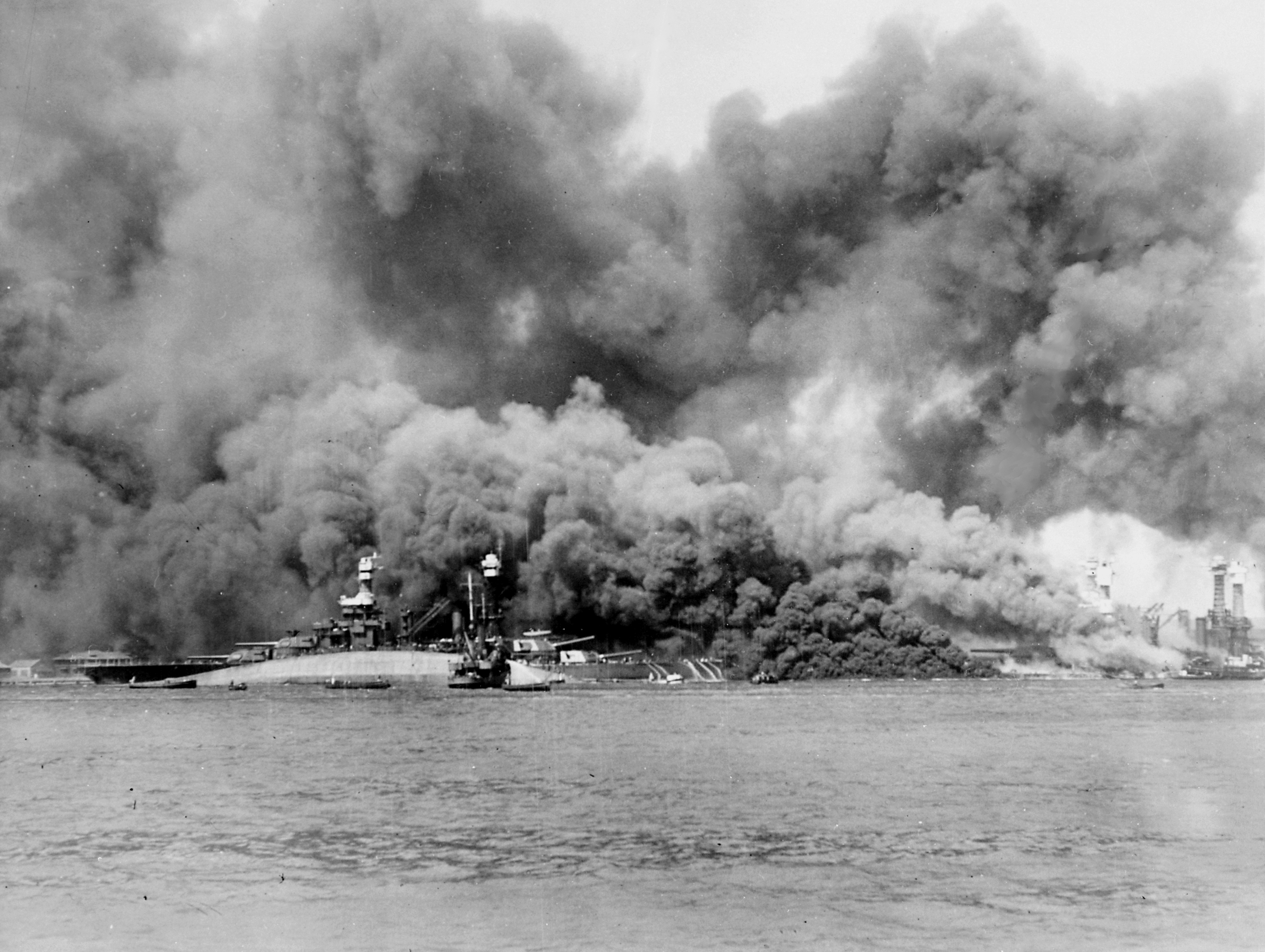 "Battleship Row" after the Japanese attack on Pearl Harbor on 7 December 1941. The capsized USS Oklahoma (BB-37) is visible the foreground, behind her is USS Maryland (BB-46), USS West Virginia (BB-48) burns furiously on the right.